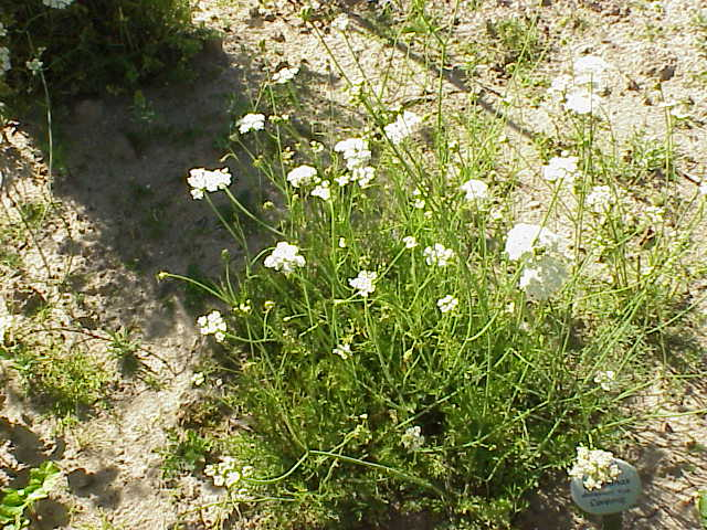 Species: Unidentified Apiaceae (labeled as Opopanax chironium) Family: Umbelliferae Image No. 1